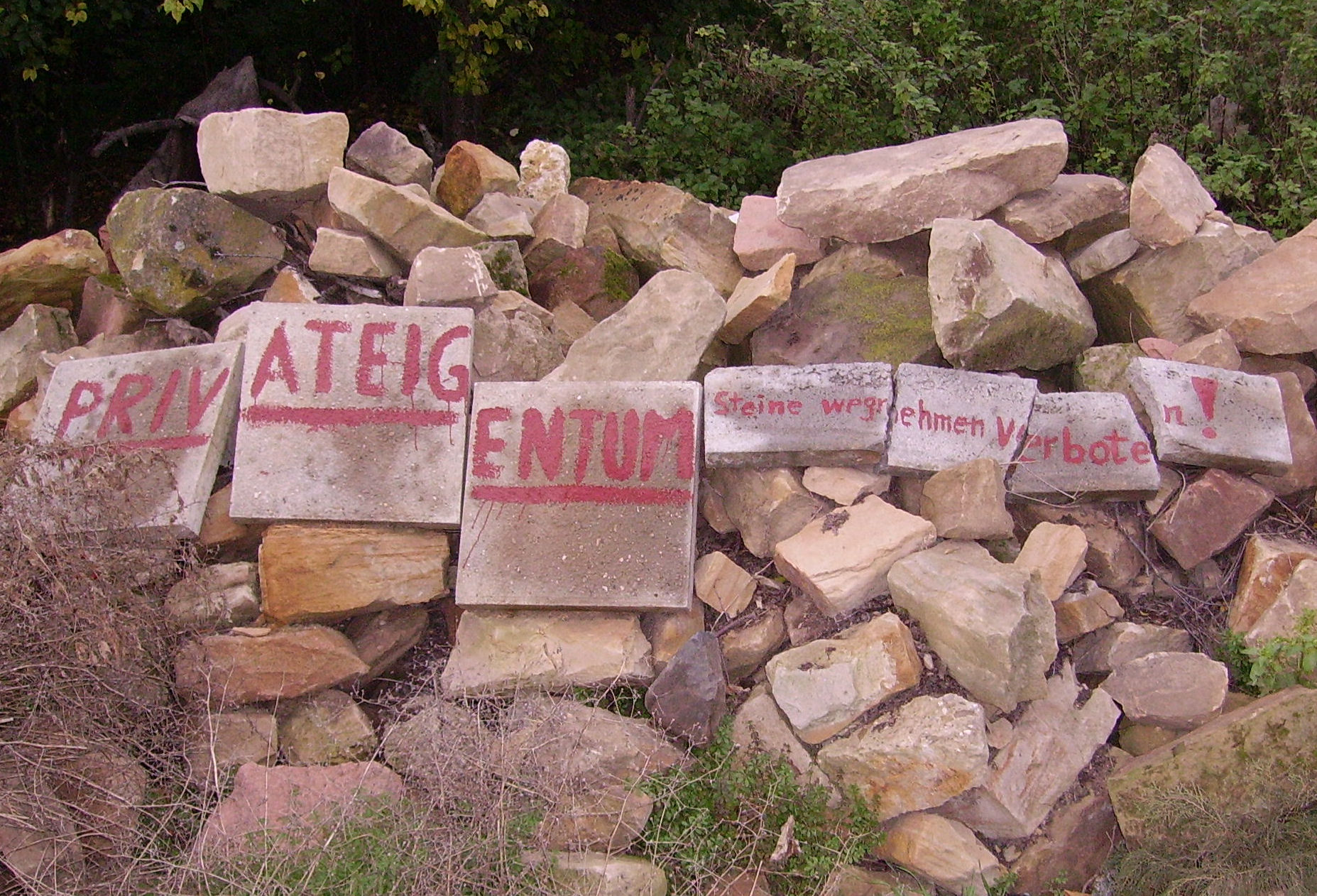 view of Hochdorf-Assenheim, Germany